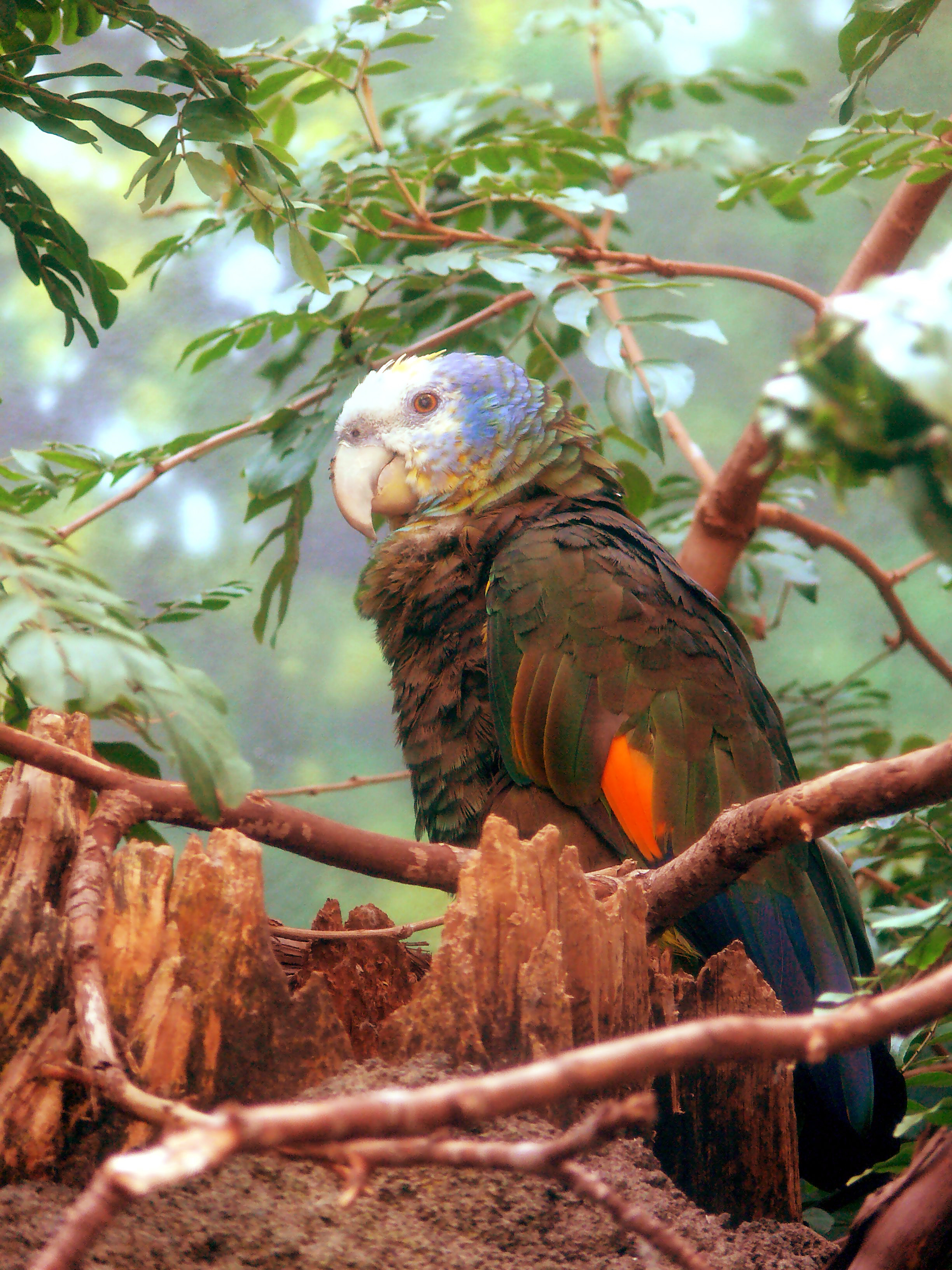 St. Vincent Amazon (Amazona guildingii) also known as St. Vincent Parrot.